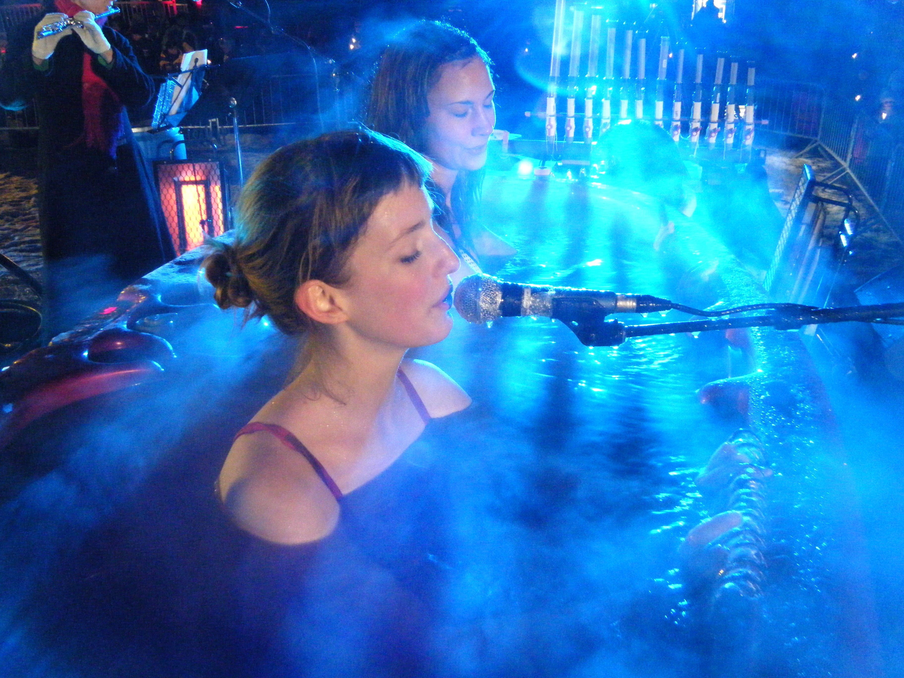 H2Orchestra performing for the National Capital Commission on Balnaphone (hydraulophone built into a SpaBerry) at Winterlude 2010